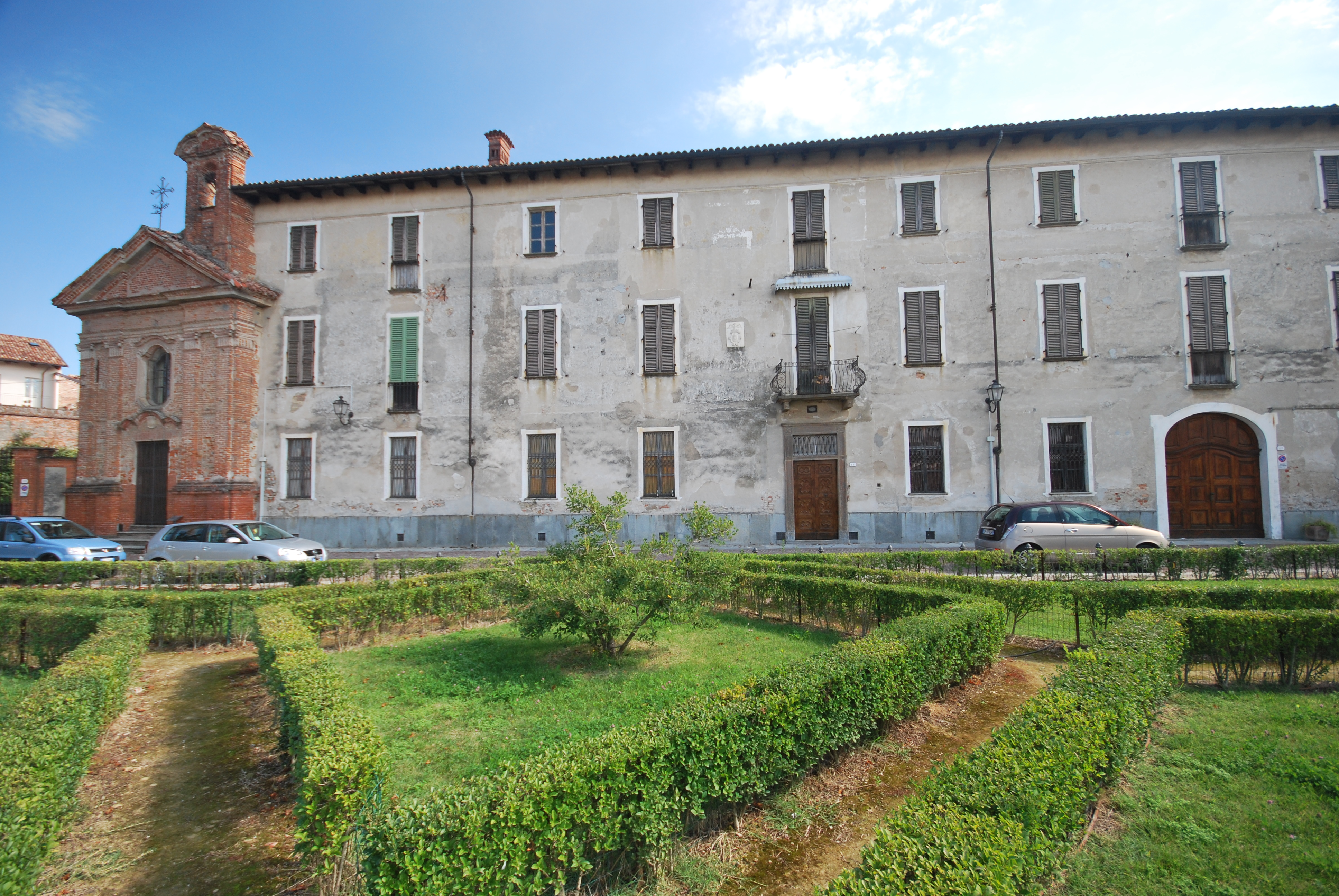 Palazzo Falletti, Via XX Settembre, La Morra, 1700th home of the noble family that ruled the area from 1342. To the left Capella gentilizia della Madonna del Buon Consiglio (Chapel of the Madonna of the Good Advice)